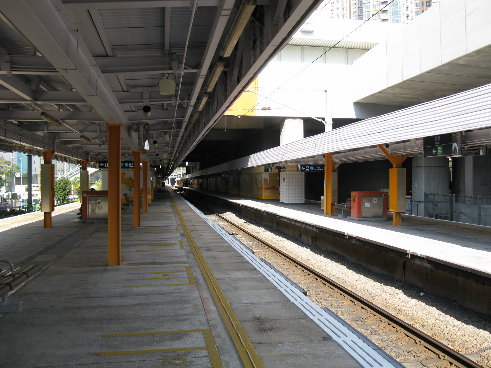 East Rail Line Platform of Fo Tan Station